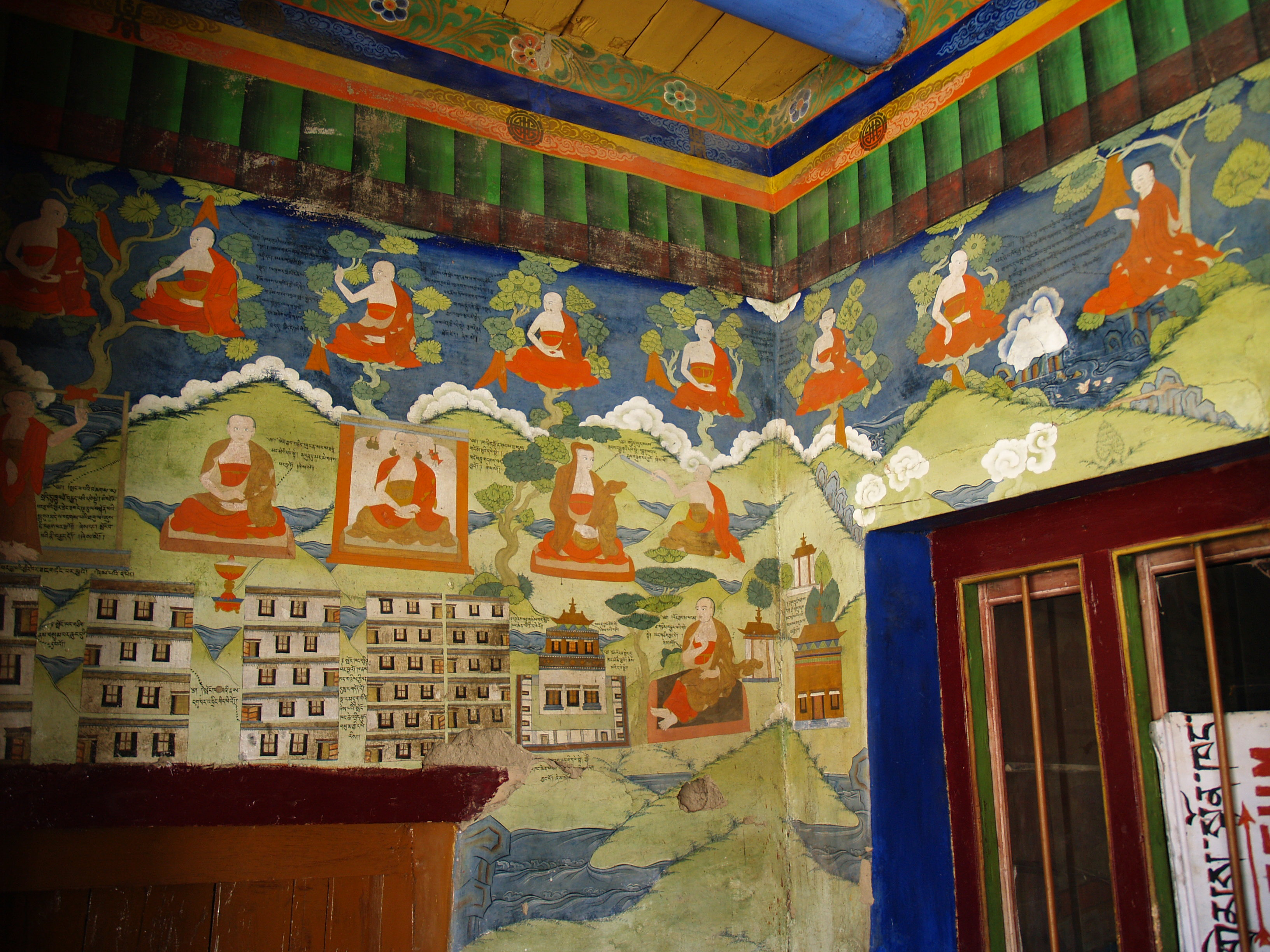 Likir Monastery, Ladakh